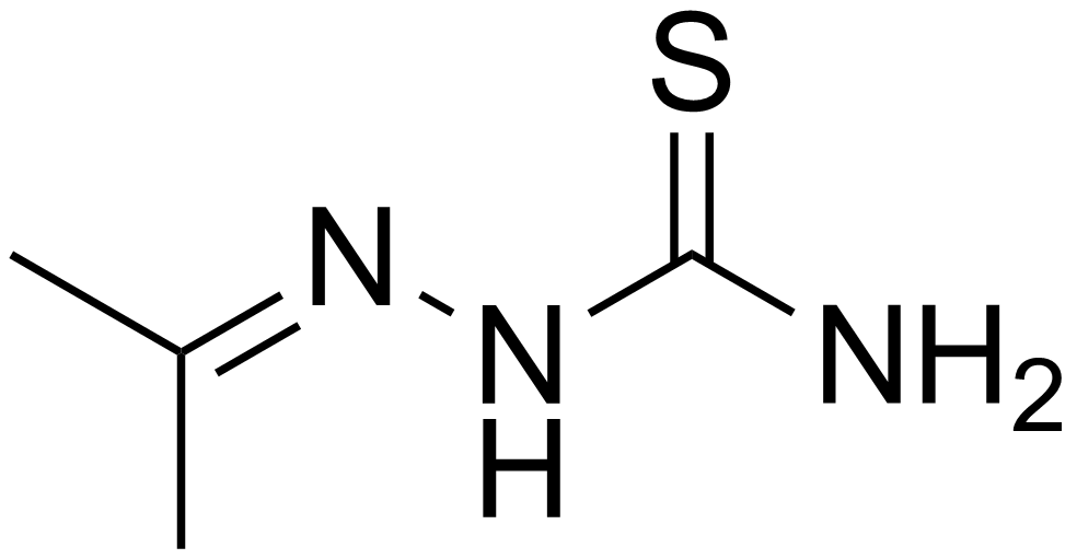 Chemical structure of acetone thiosemicarbazone (Acetone thiosemicarbazide)